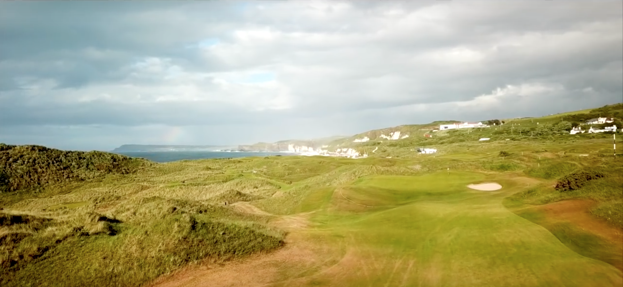 Royal Portrush 8th hole Northern Ireland Golf The Open